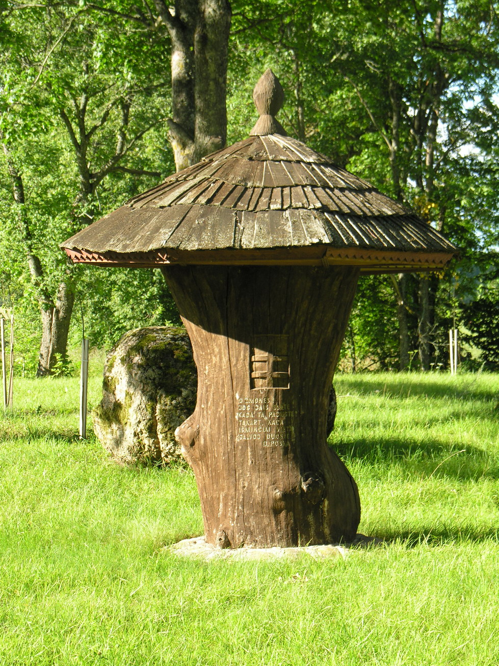 Memorial in the birthplace of the lithuanian writer Dionizas Poška (1765 - 1830) in Šerkšnėnai, municipality Mažeikiai